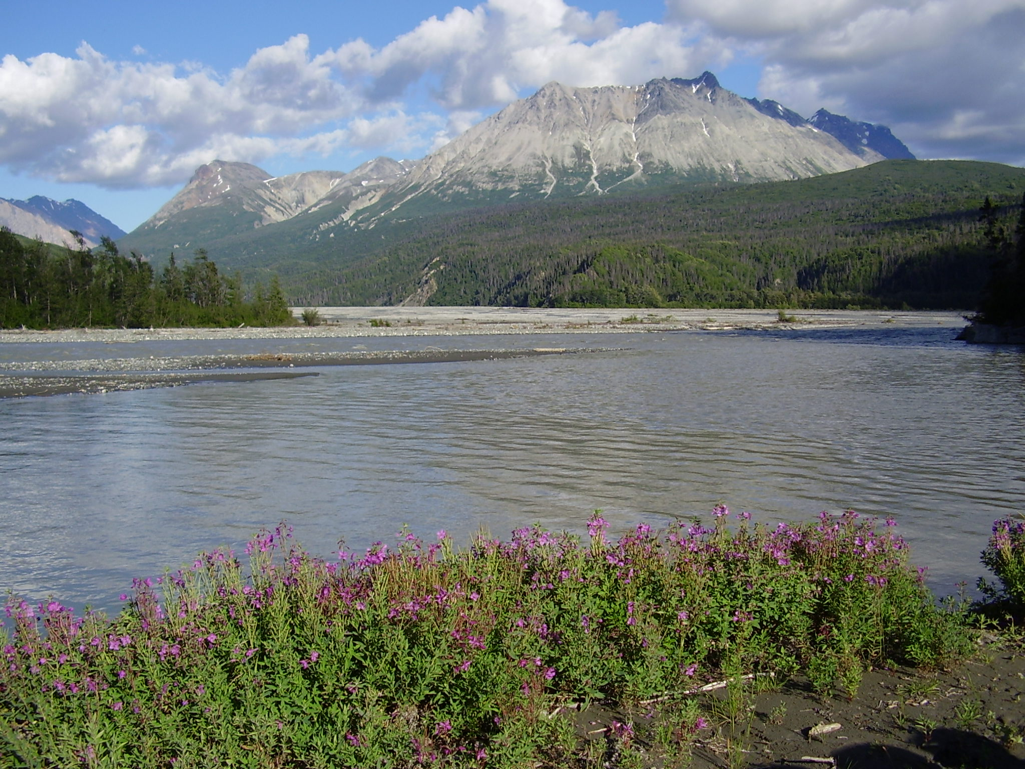 Landscape photograph of the O'Connor Creek delta in the Tatshenshini River in north-western British Columbia